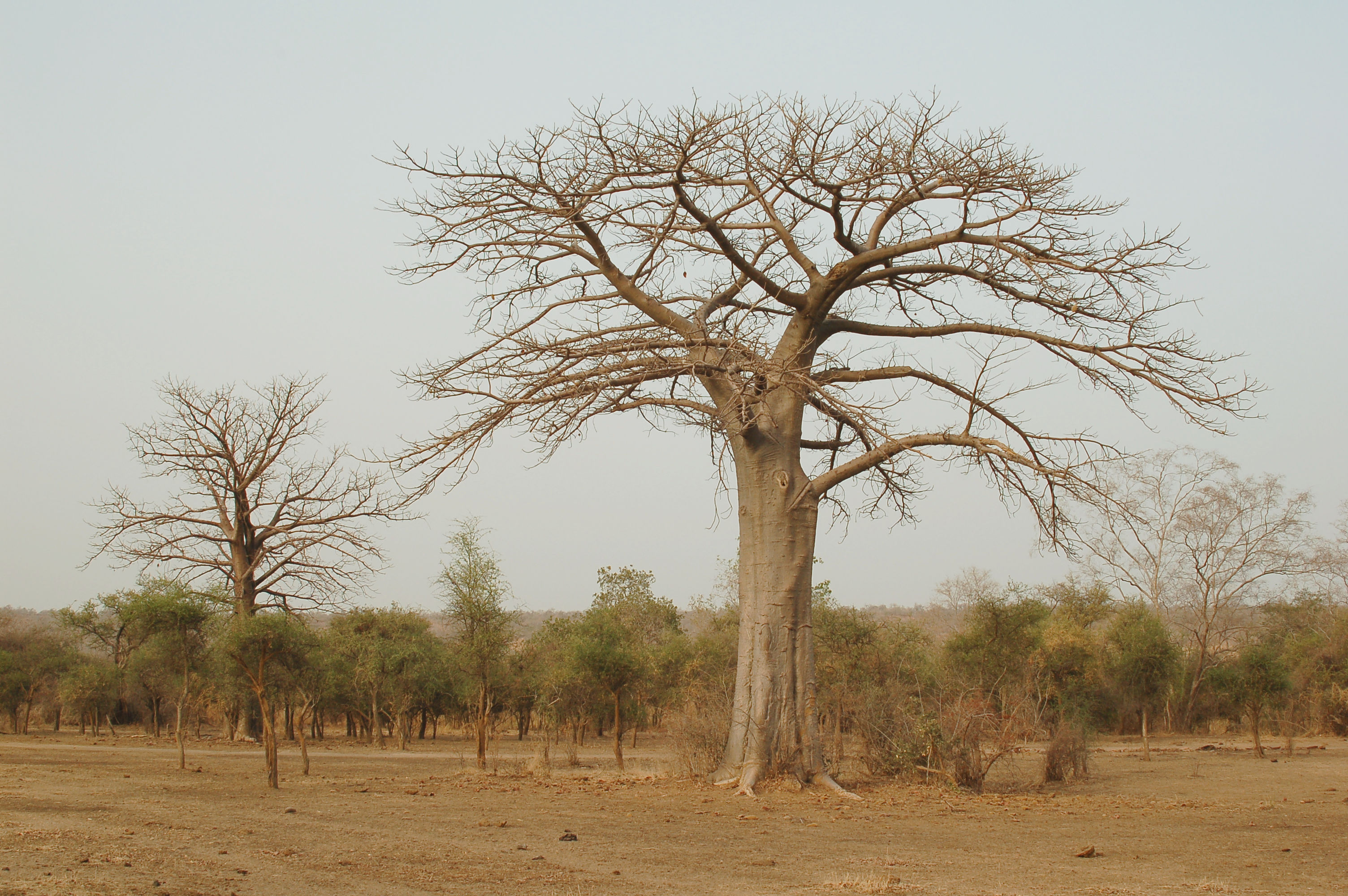 Baobab trees, Adansonia digitata, with Acacia trees in the Sahel sub-Saharan savanna, in Park W, Niger.